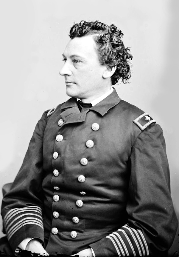 Engineer-in-Chief of the U.S. Navy Benjamin F. Isherwood.